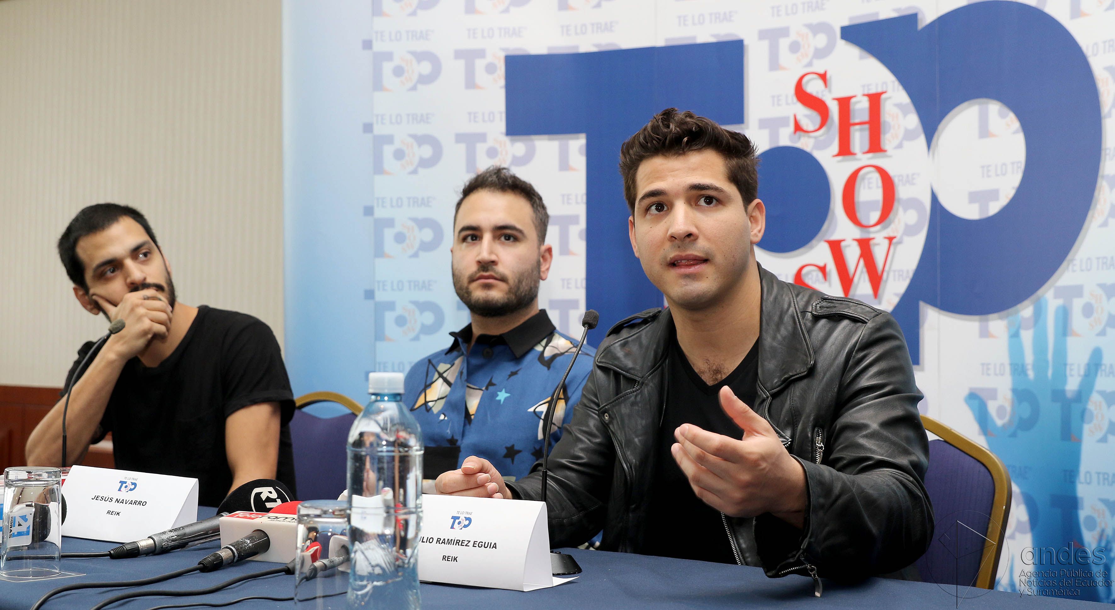 Guayaquil, February 2, 2017 (Andes).- Mexican band Reik will offer two concerts in Ecuador togheter with spanish singer Melendi. Foto:Andes/César Muñoz